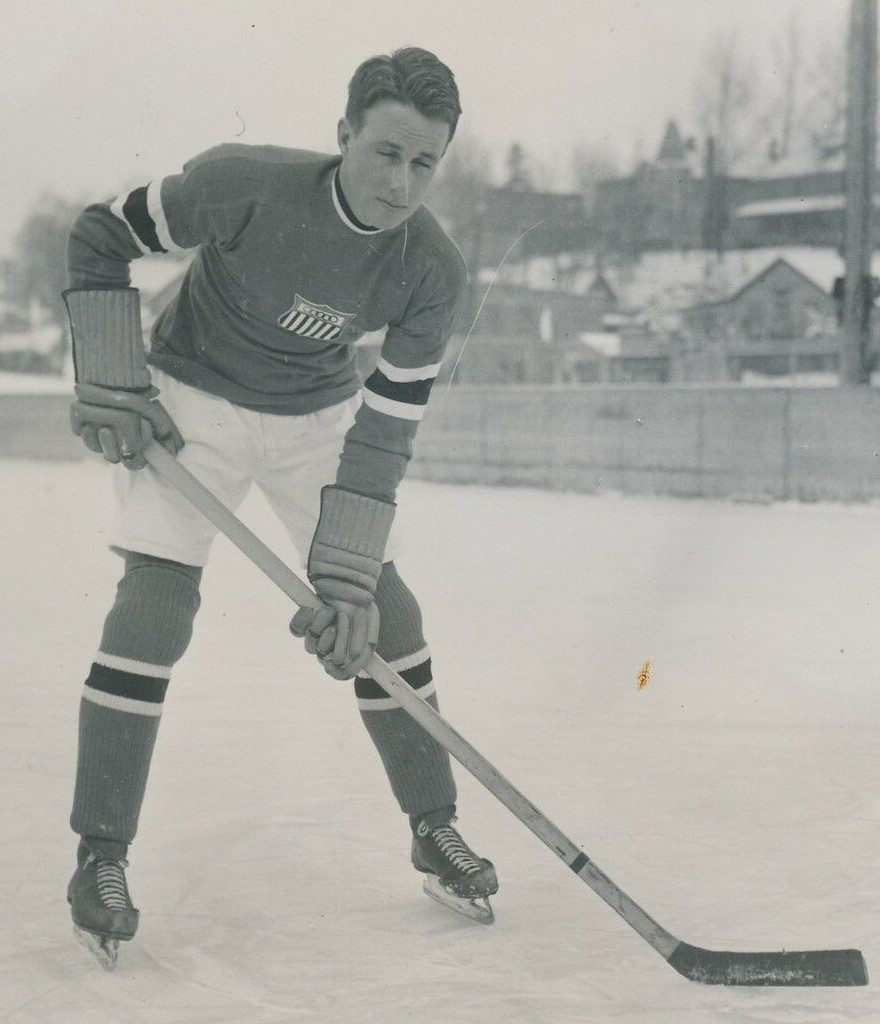 Black & white photo of 1932 Olympics Team USA ice hockey captain John Chase